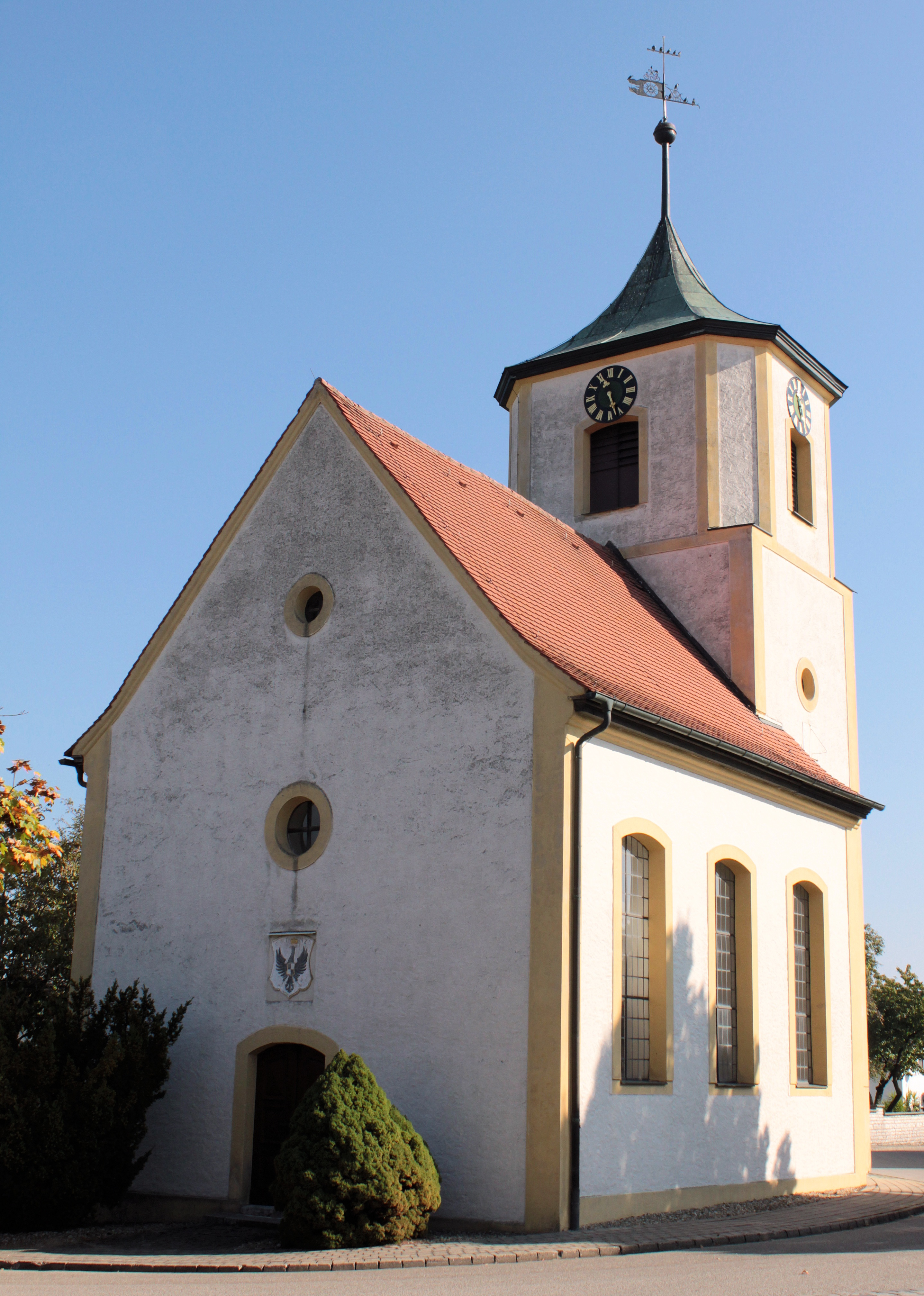 St. Johanniskirche in Langenaltheim, Landkreis Weißenburg-Gunzenhausen, Bavaria, Germany